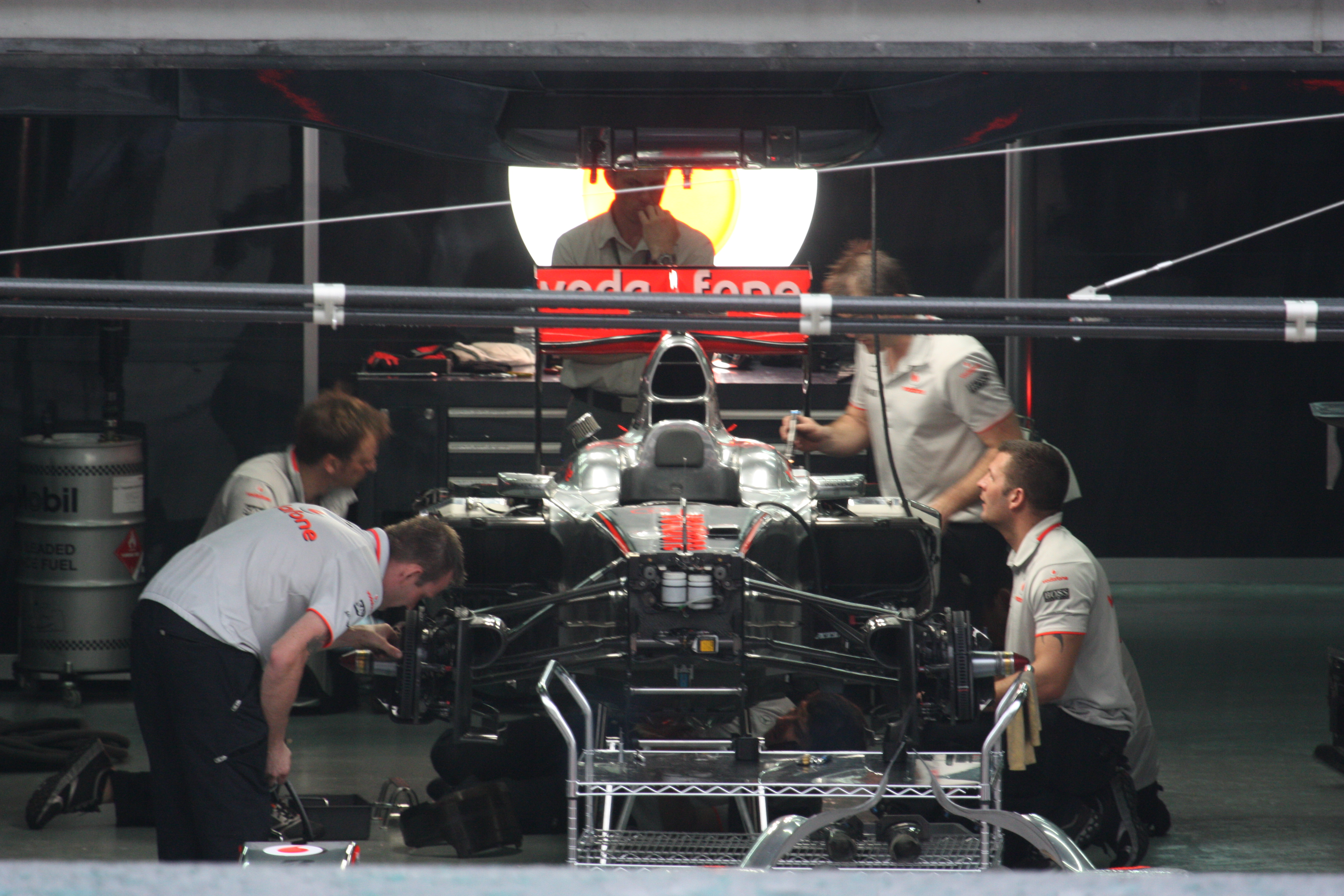 McLaren working on MP4-25.